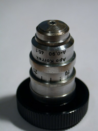 Microscope Objective Reichert Apo 45x/na=0.90